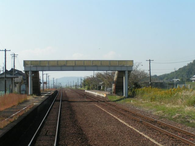 Sanagu Station